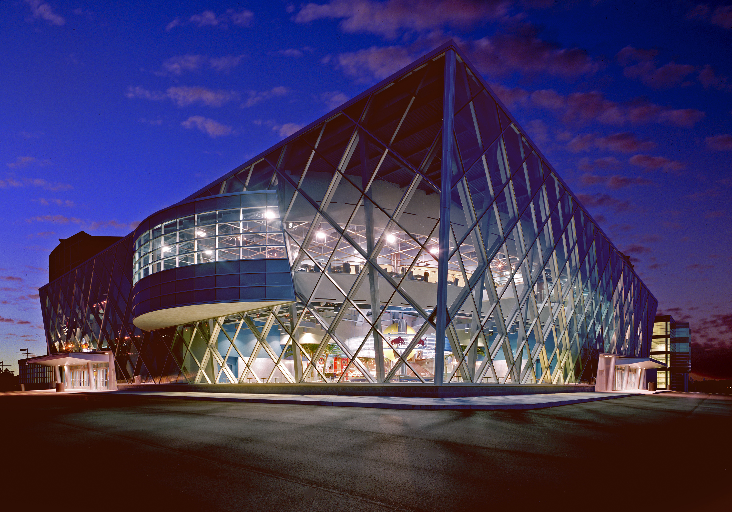 Exterior shot of the Palace of Auburn Hills, Michigan